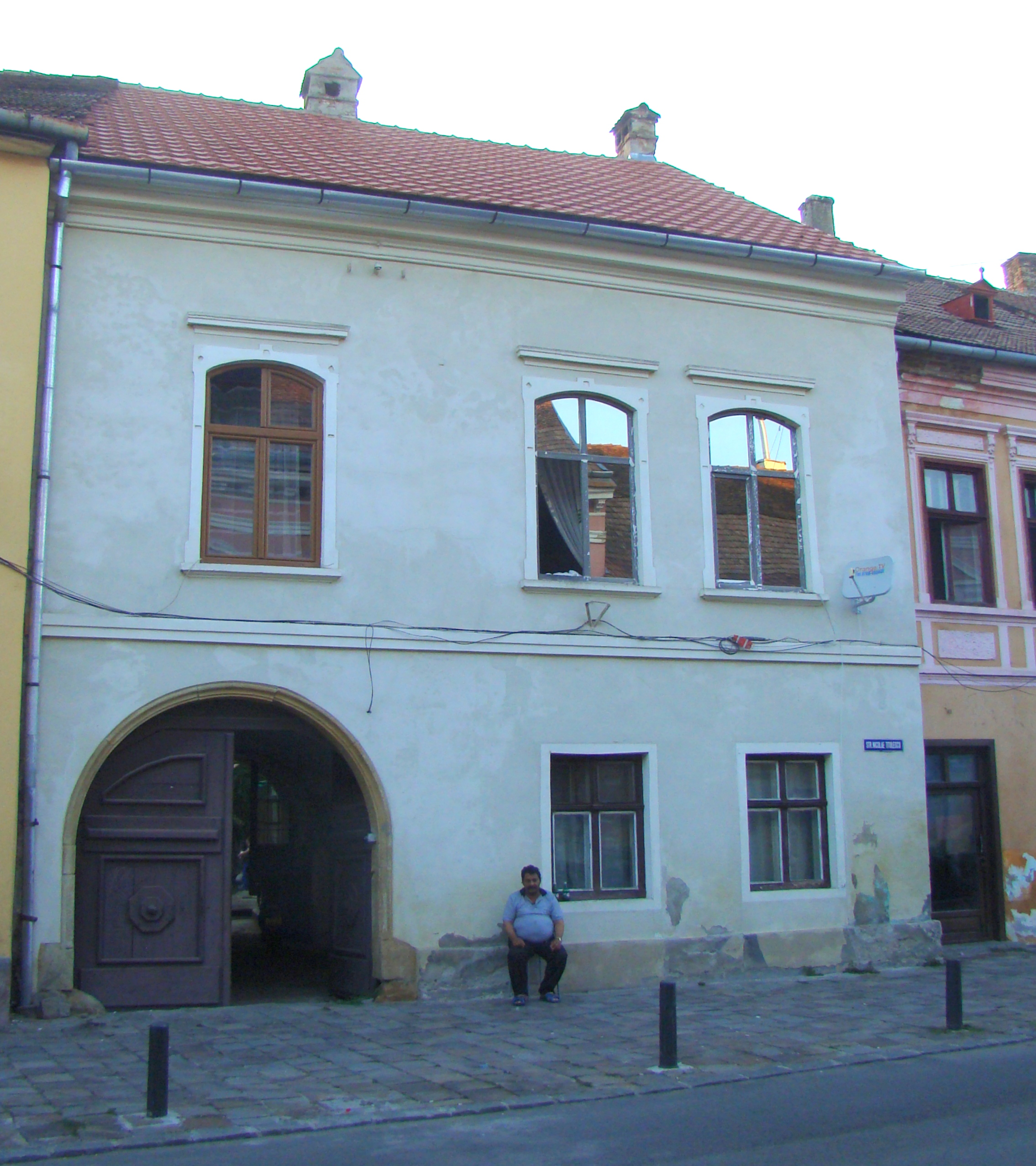 House, historic monument, in Bistrița, Nicolae Titulescu street 24